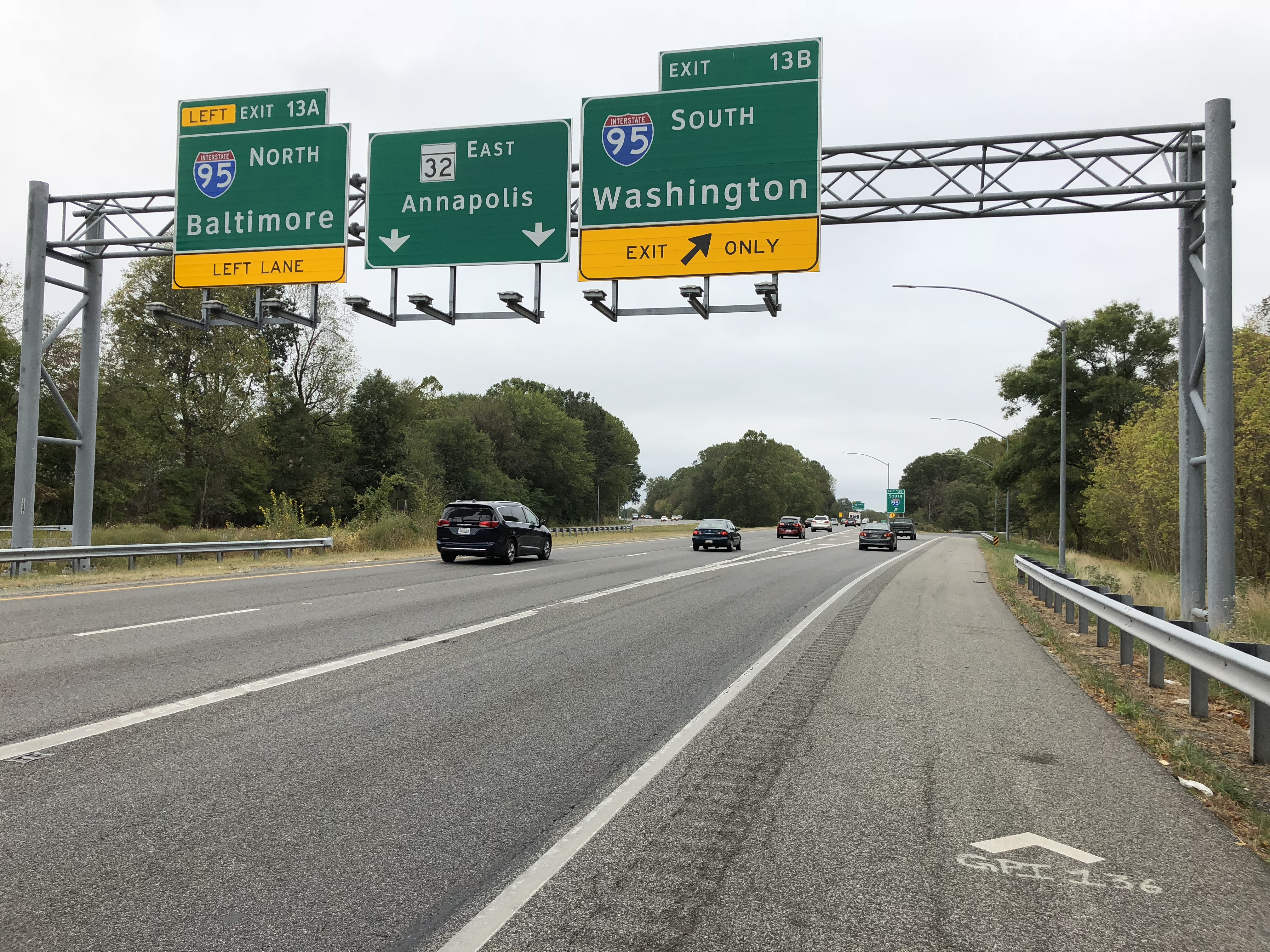 View east along Maryland State Route 32 (Patuxent Freeway) at Exit 13B (Interstate 95 SOUTH, Washington) in Columbia, Howard County, Maryland